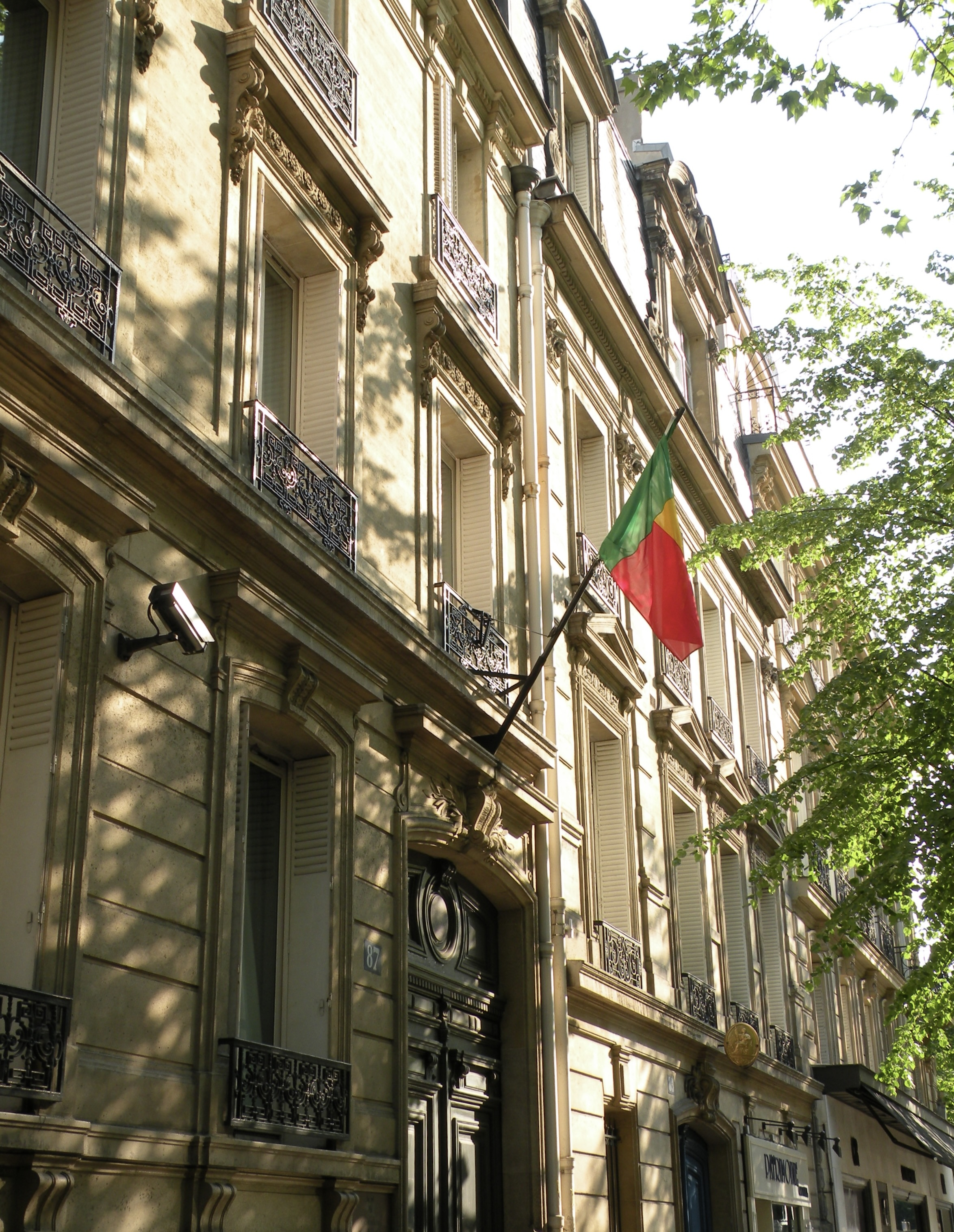 Beninese embassy in France, Paris